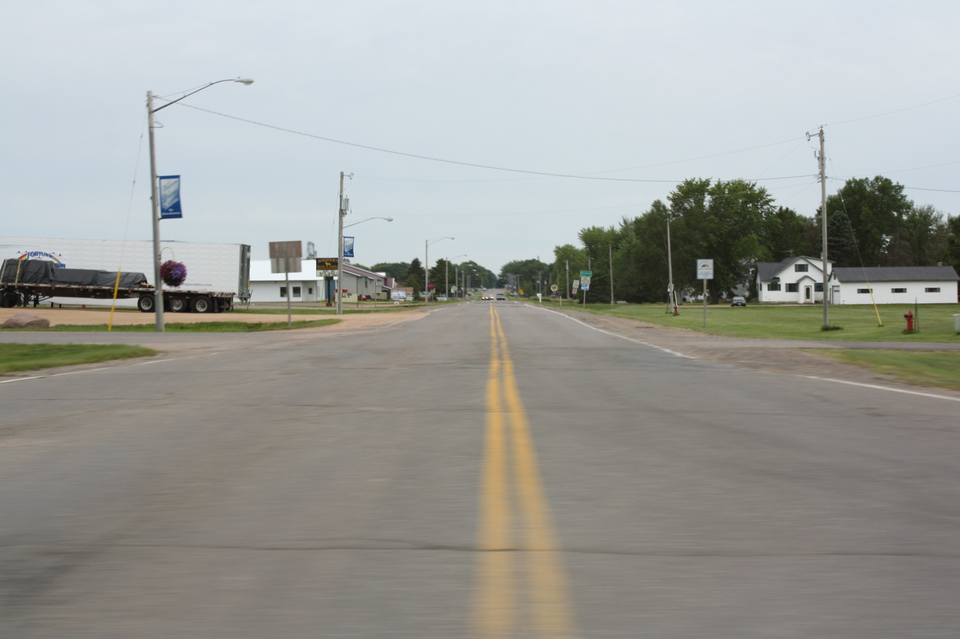 Looking west at County A in downtown Dorchester, Wisconsin from Wisconsin Highway 13.